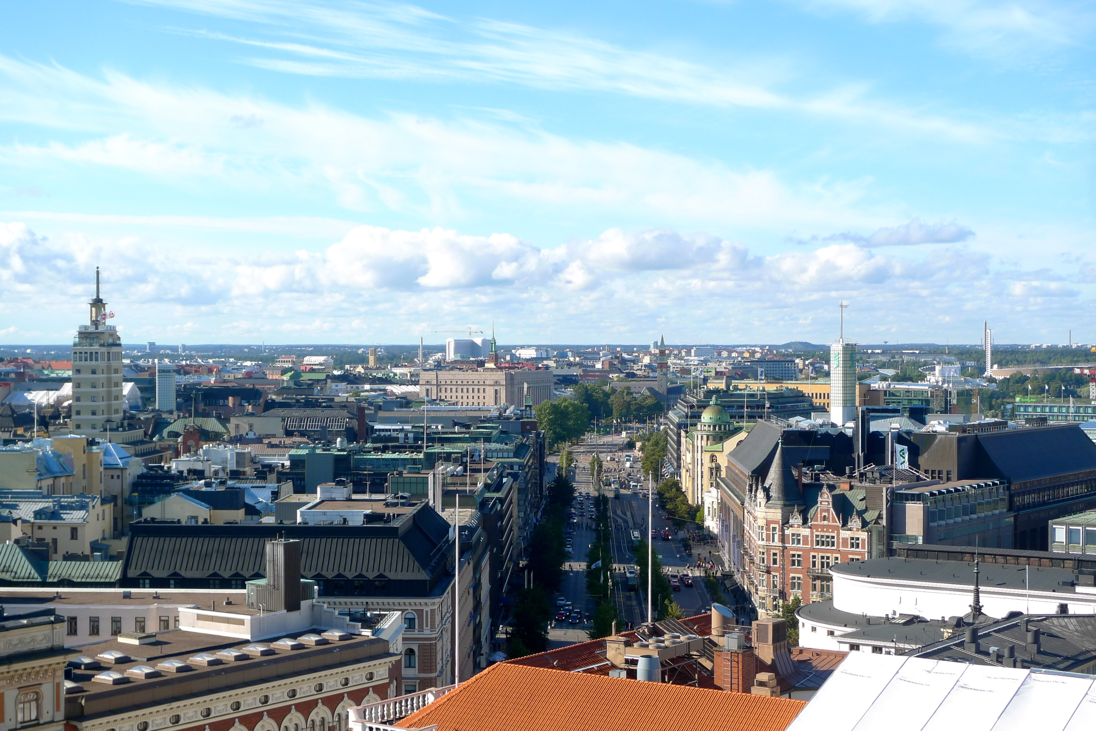 Central Helsinki and southern end of Mannerheimintie, seen from Erottaja Fire Station.